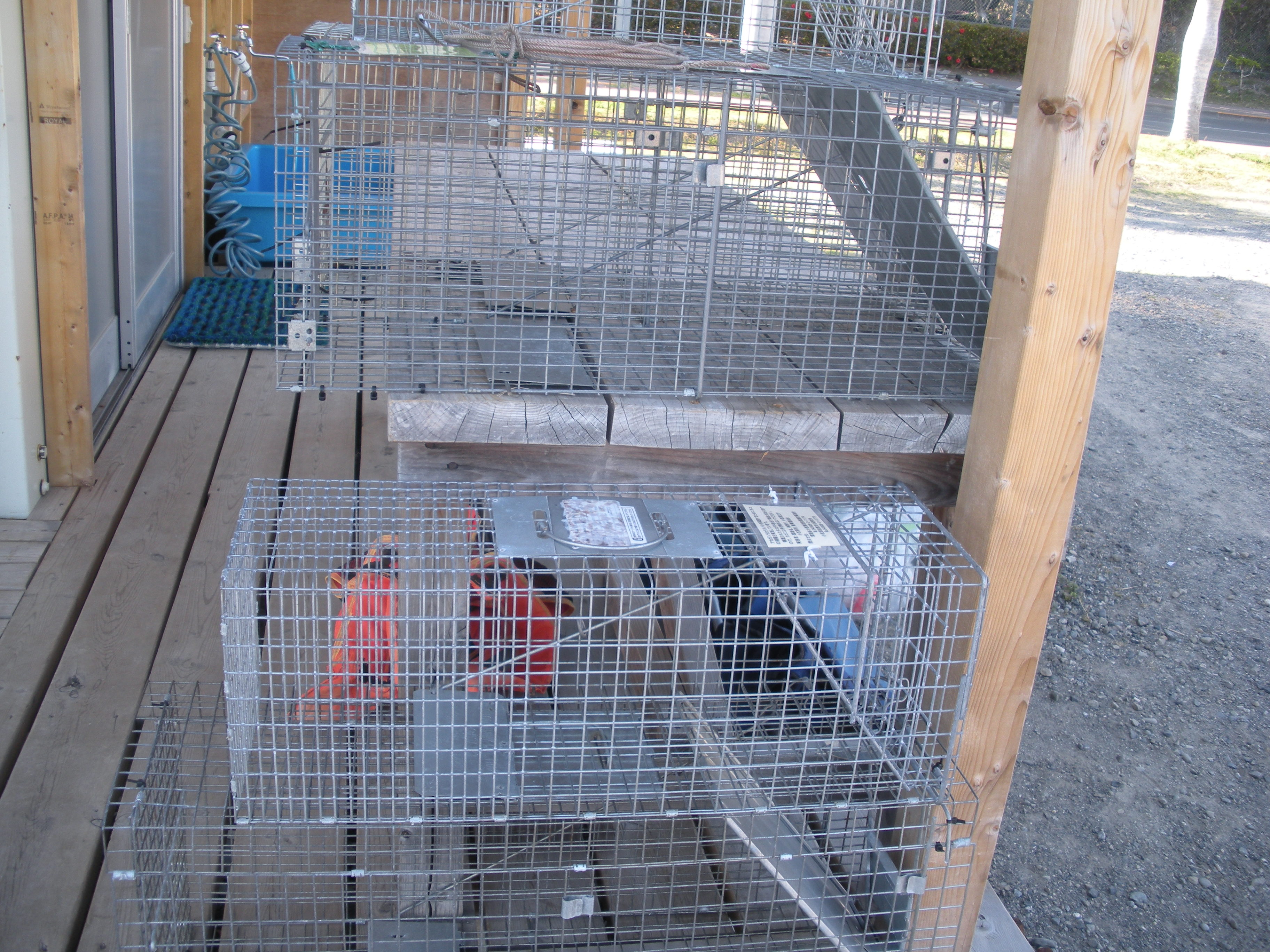 Cat Trap in Japan Bonin Islands